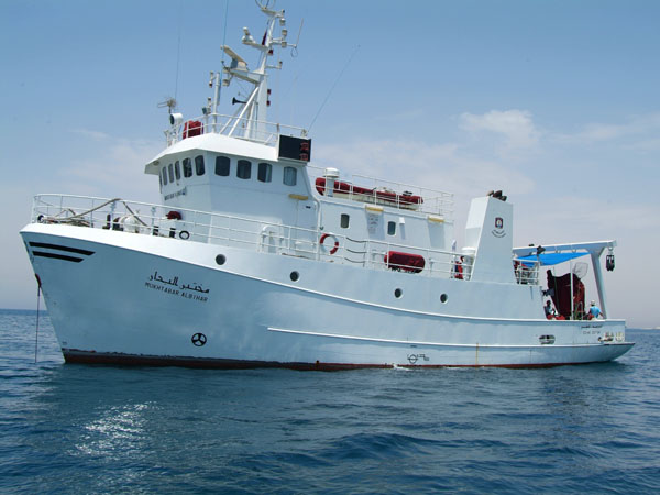 A photo of the research vessel used by the Qatar University Environmental Studies Center (E.S.Center)